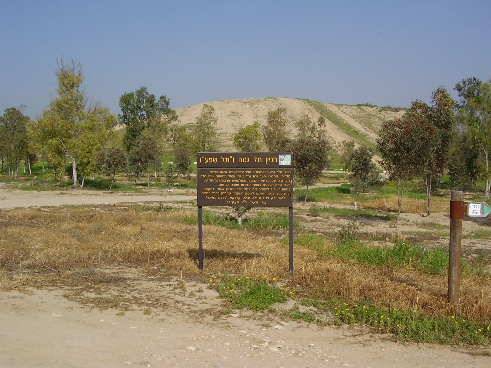 tel gama in the negev